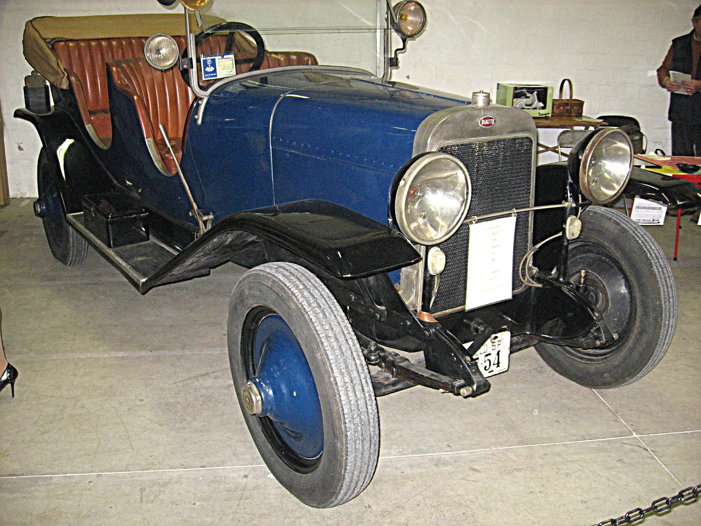 Subject:Diatto 20 DA Torpedo (1921) Author:Luc106 Date:November 24th, 2007 Event:Markè-Retrò 2007 Place/country:Cesena (FC), Italy I release all rights in the public domain.